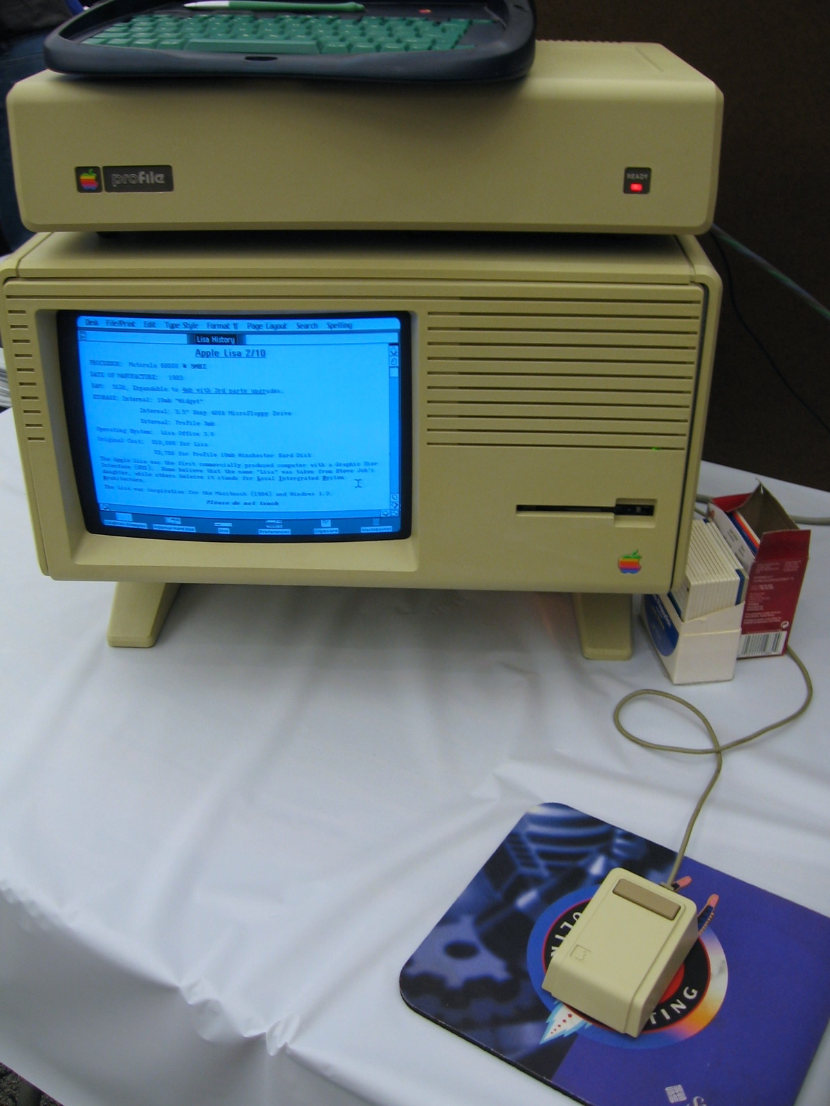 Apple Lisa 2 with Profile HD